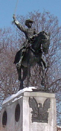 Equestrian statue of Civil War general Henry Warner Slocum in Brooklyn's Prospect Park